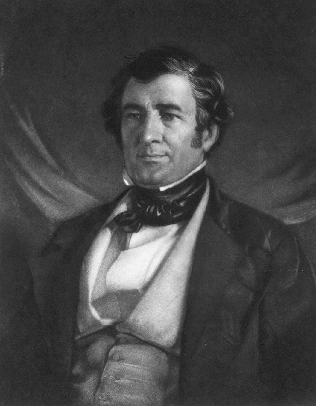 John Kearsley Mitchell (May 12, 1798 – April 4, 1858)